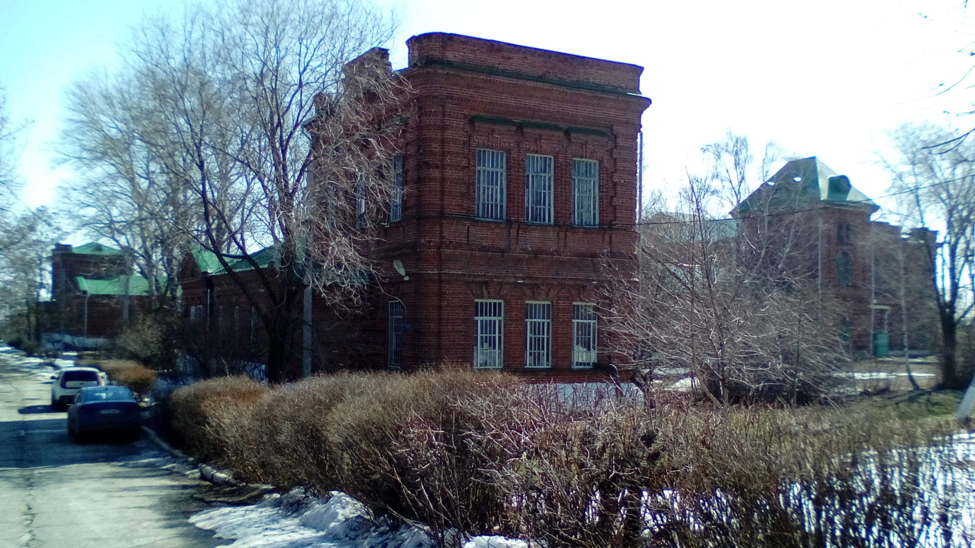 Old buildings of the Ulyanovsk Regional Clinical Psychiatric Hospital built in the early 20th century